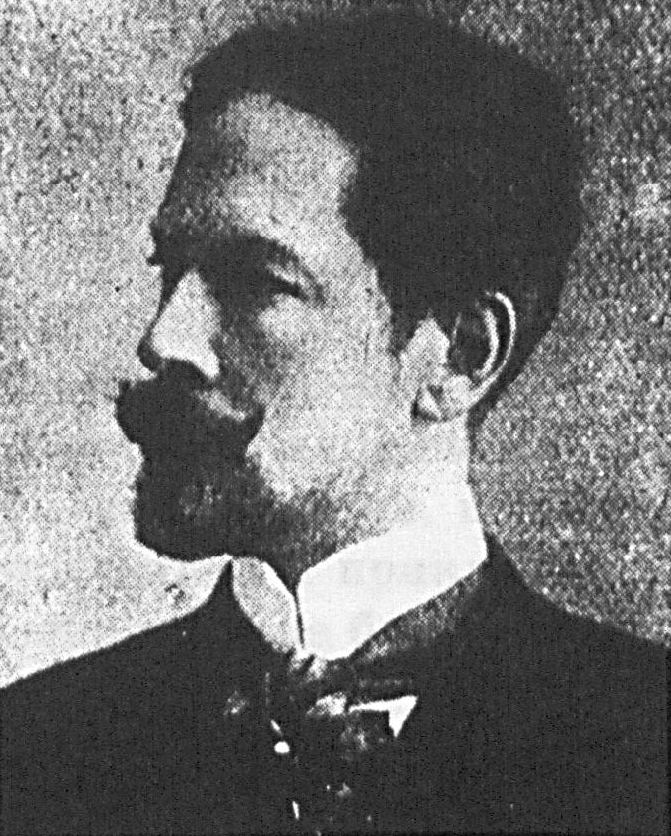 Armin von Foelkersam